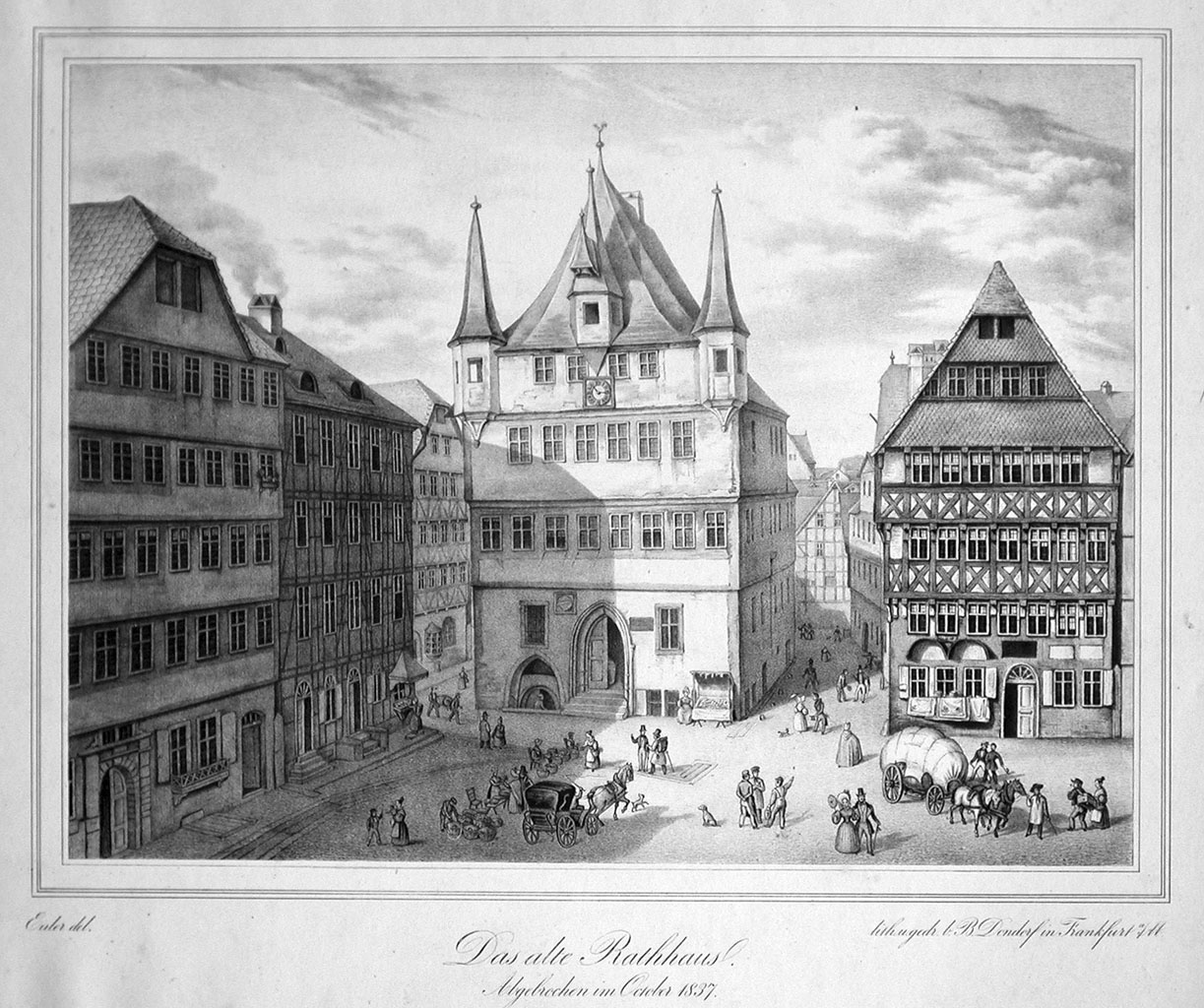 Old town hall in Kassel, built in 1408, demolished in 1837